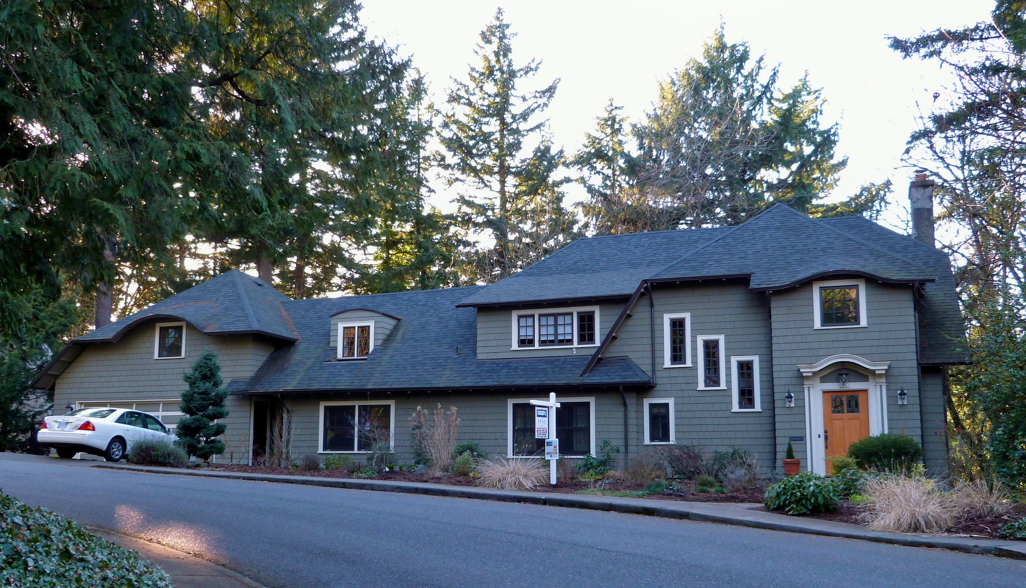 The historic Alice Henderson Strong House (built 1912), located at 2241 Southwest Montgomery Drive in Portland, Oregon, United States, is listed on the US National Register of Historic Places.